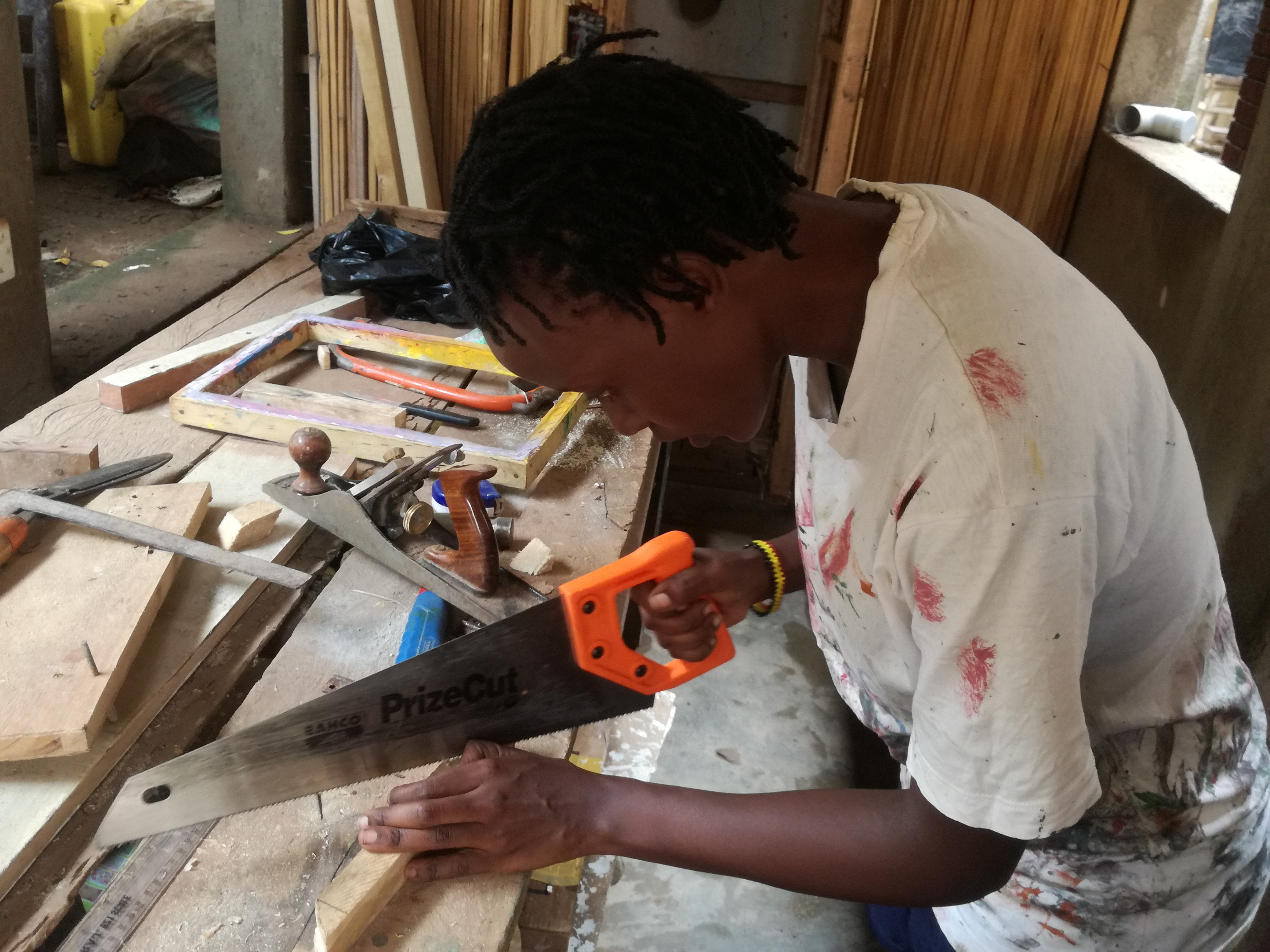 Young Shona working with timber with the basic tools of measurements: a carpenter’s pencil and ruler. This is an image of "African people at work" from Uganda